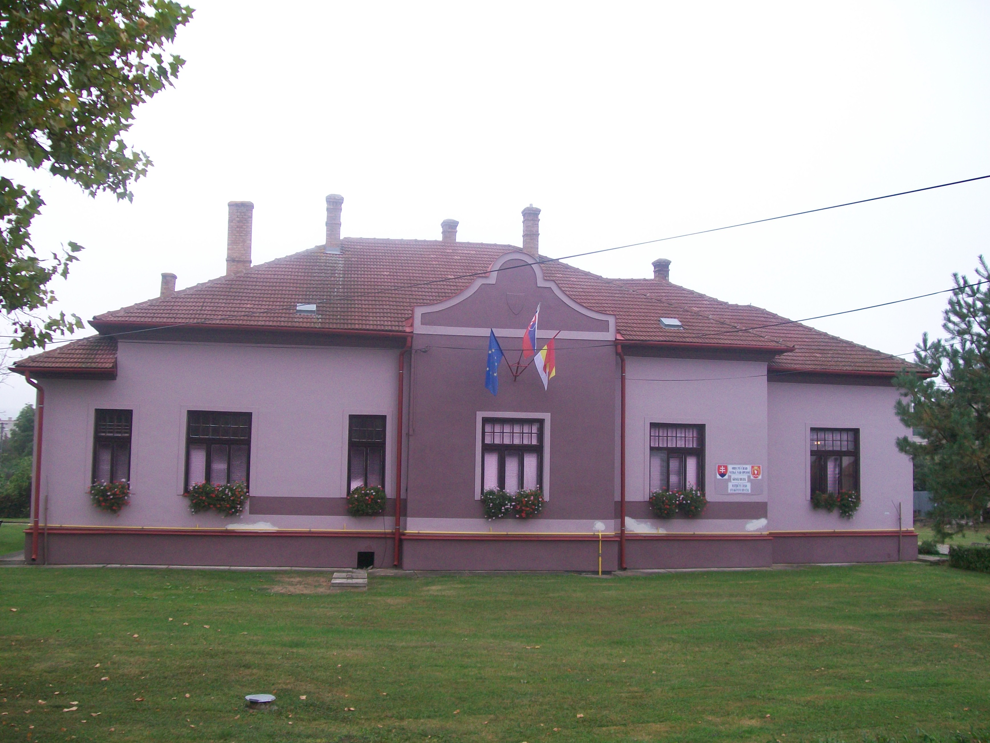 Municipal office in the village Veľká nad IpľomSlovenčina: Obecný úrad v obci Veľká nad Ipľom